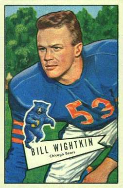 American football player Bill Wightkin on a 1952 Bowman Large card.